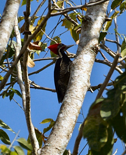 Lineated Woodpecker, image taken 26 Apr 2007.